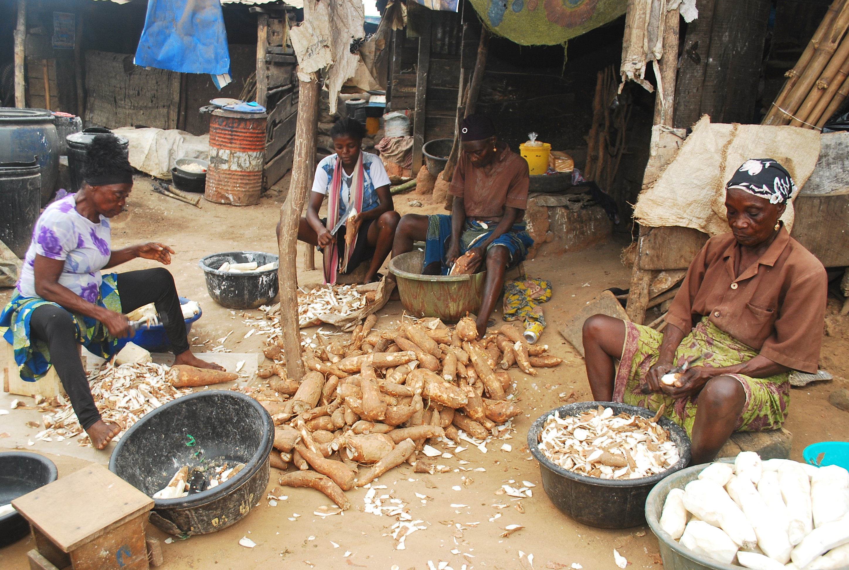 Peeling and washing: Freshly harvested cassava roots are covered with soil and dirt and. The roots are peeled to remove the outer brown skin and inner thick cream layer and washed to remove stains and dirt. The water source should be checked regularly to ensure it is not dirty or contaminated. This women are peeling the cassava which is the first stage in gari production